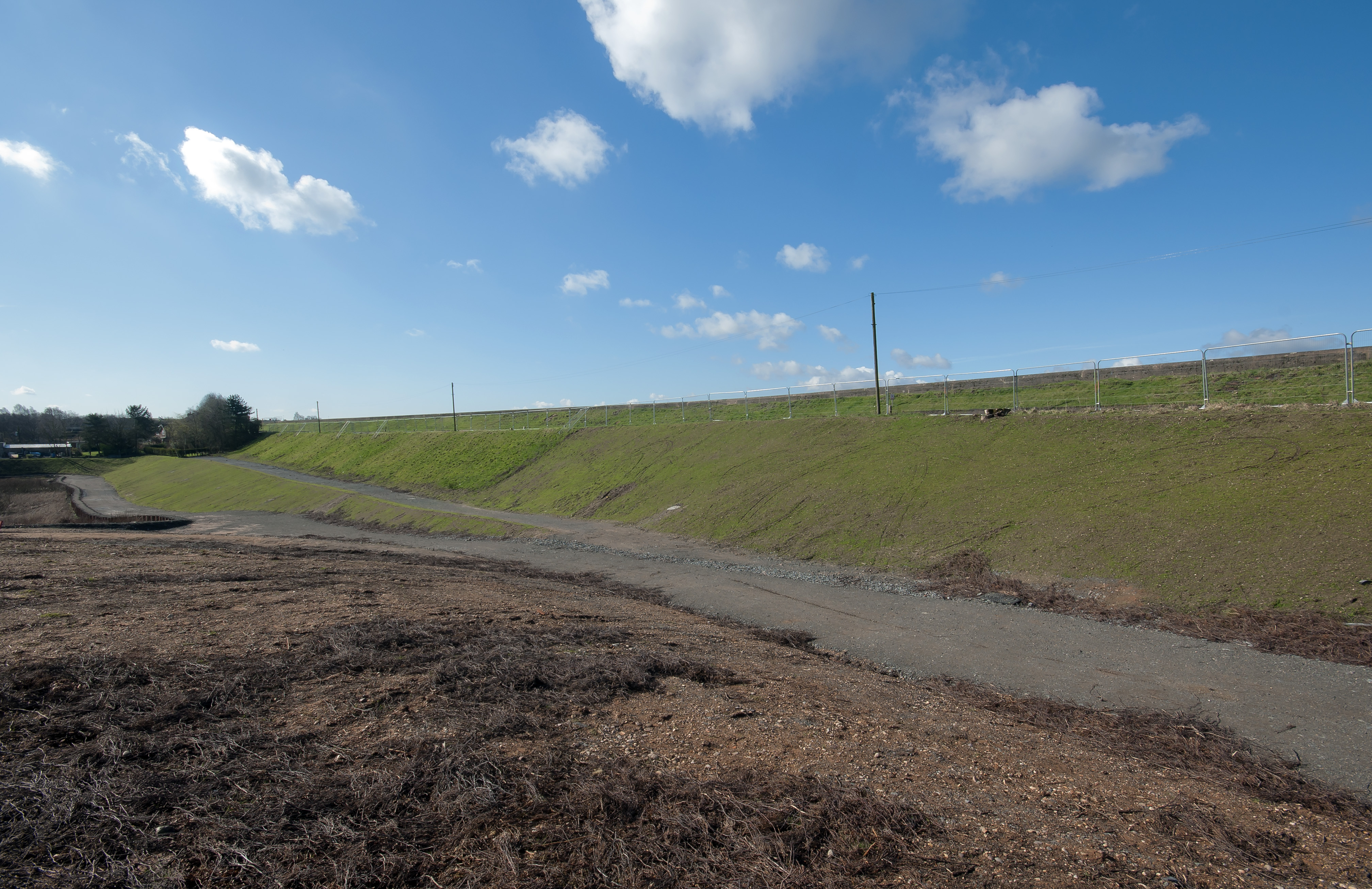 The eastern (main) earth embankment dam at Chasewater reservoir after engineering works in 2012.